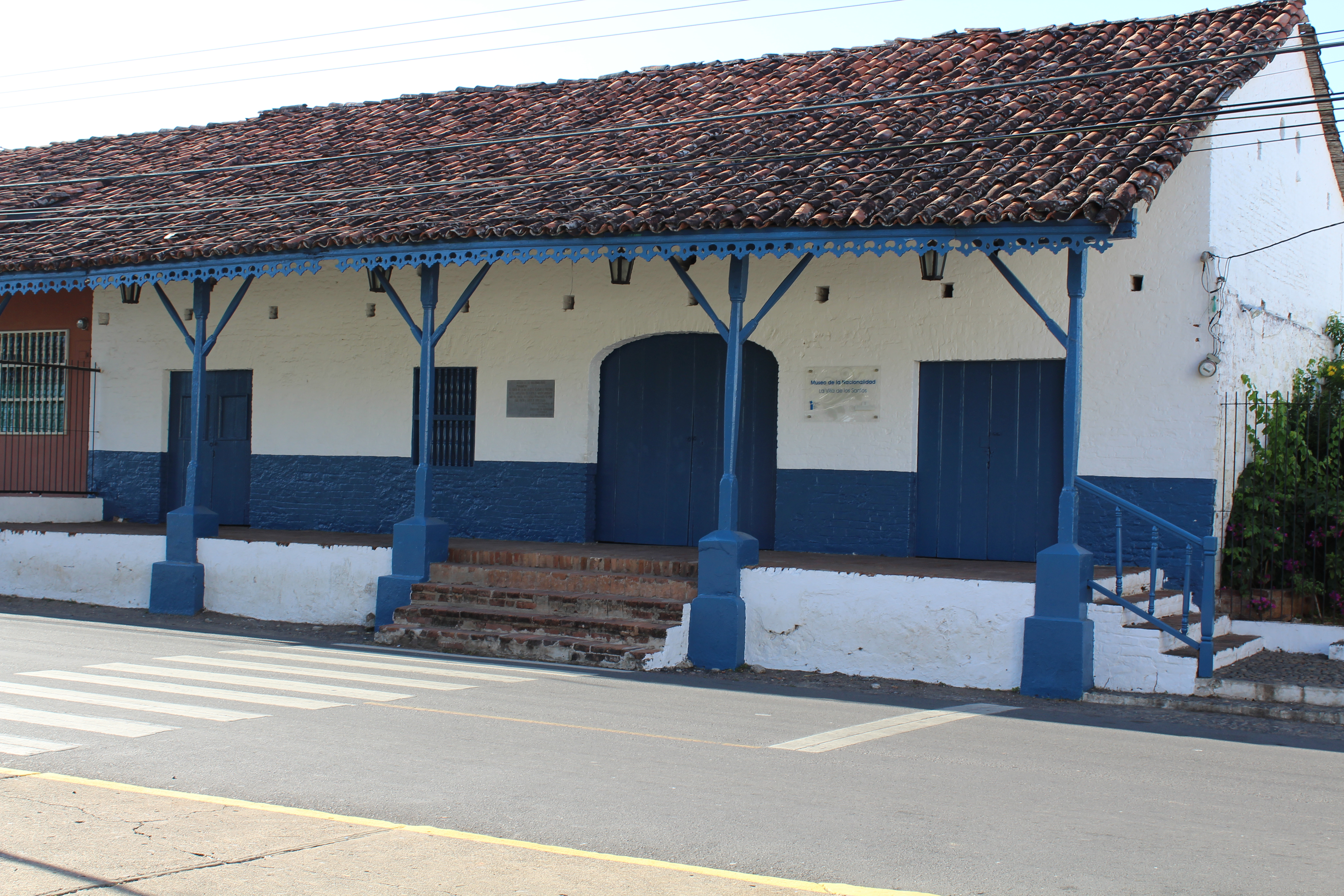 Museo de la Nacionalidad, La Villa de Los Santos